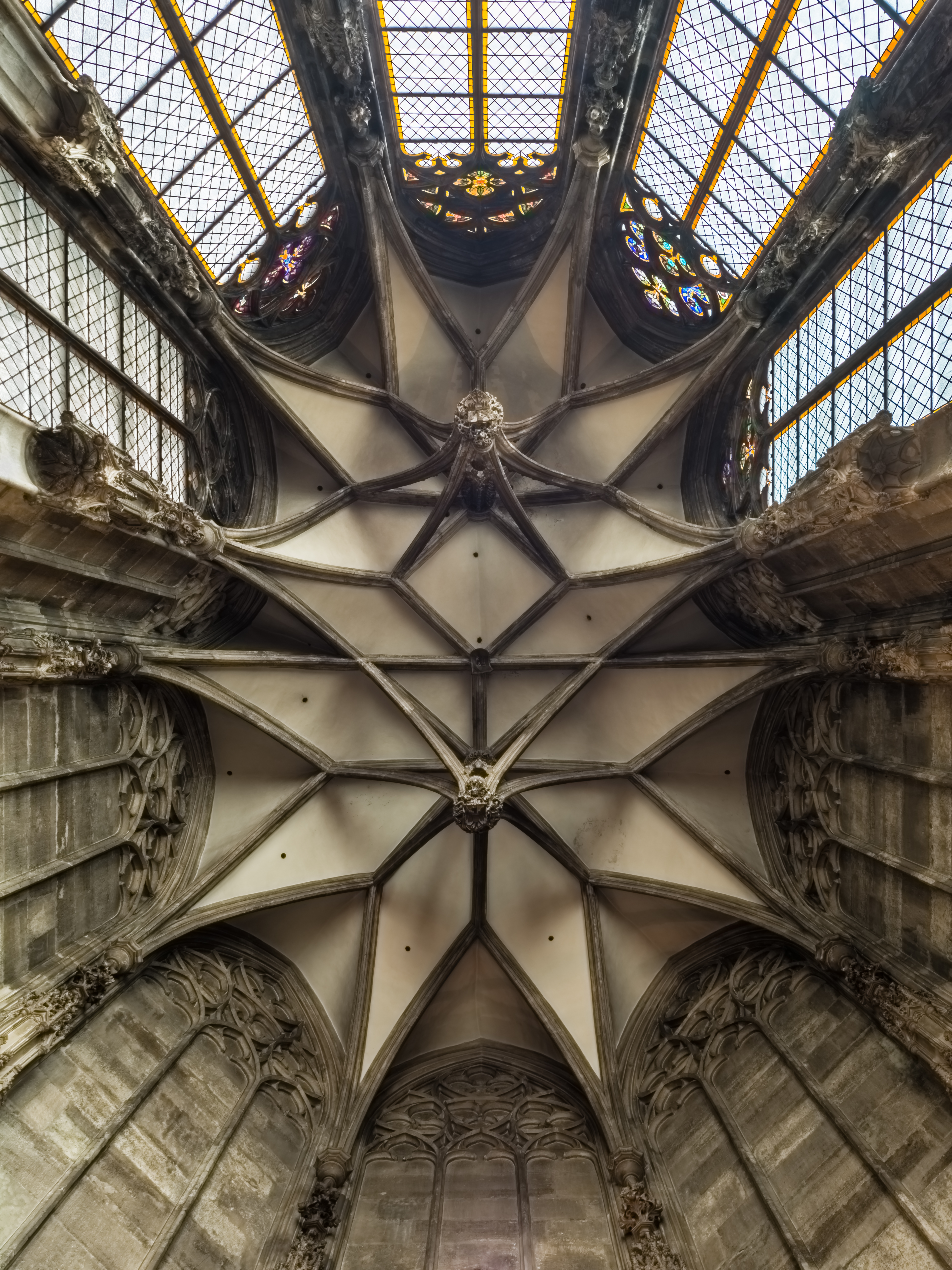 Vault with hanging keystones in St. Barbara's Chapel of St. Stephen's Cathedral, Vienna, Austria